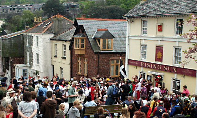 The Black Prince Flower Boat Procession The Black Prince Procession is a Mayday custom in the villages of Millbrook, Kingsand and Cawsand. It takes place on Mayday bank holiday which this year (2008) is the 5th of May. The procession starts in Millbrook in the morning then moves to Kingsand and ends up on the beach at Cawsand where a model boat, The Black Prince, bedecked in flowers is floated out to sea to say goodbye to the harsh weather of Winter and welcome in the warm Summer weather. The procession is seen here gathering outside the Rising Sun pub in Kingsand.